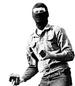 Scene of the Battle of Ryesgade